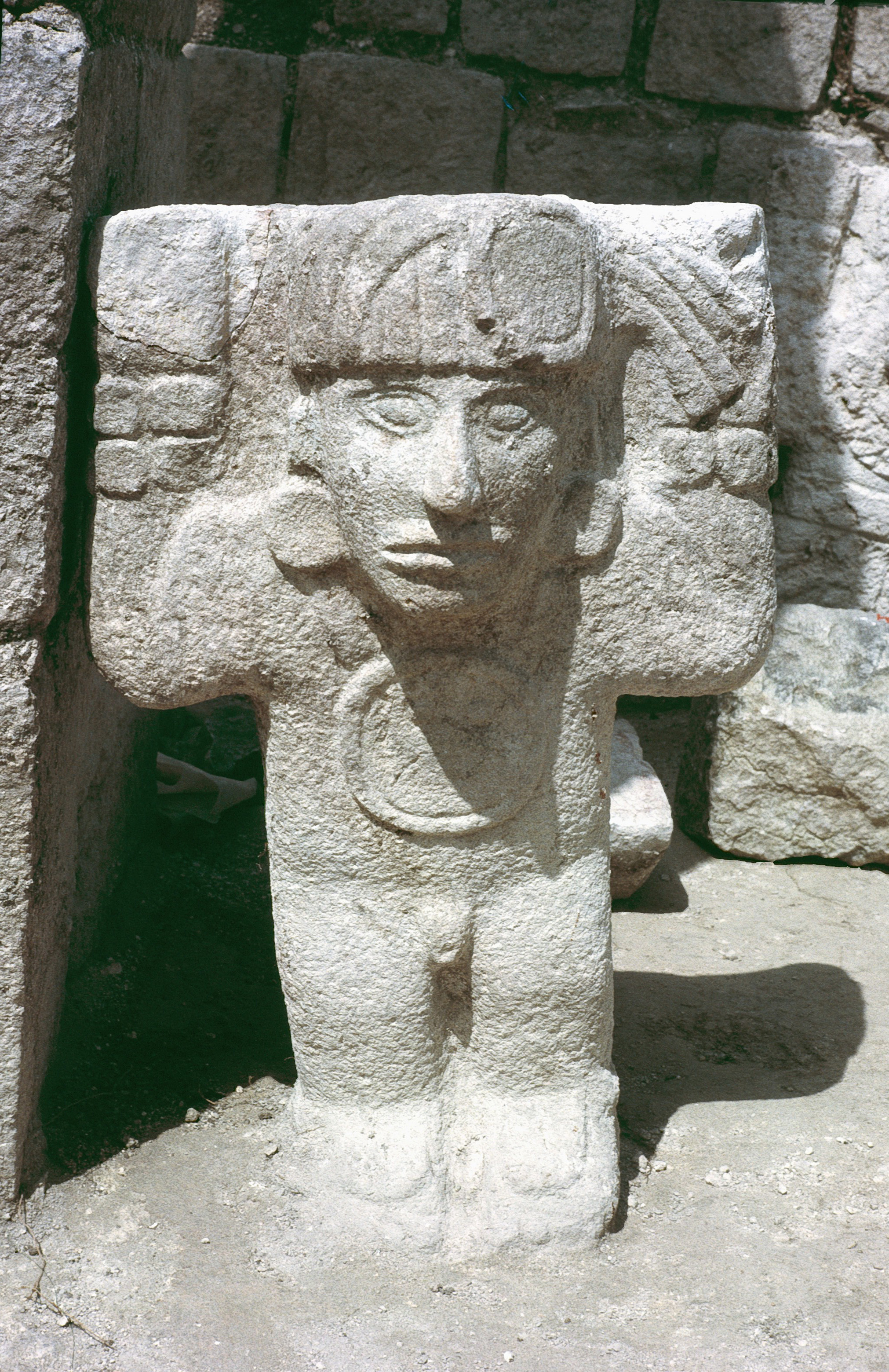 Chichen Itza, Yucatan, Mexico: Osario, Antlantean figure